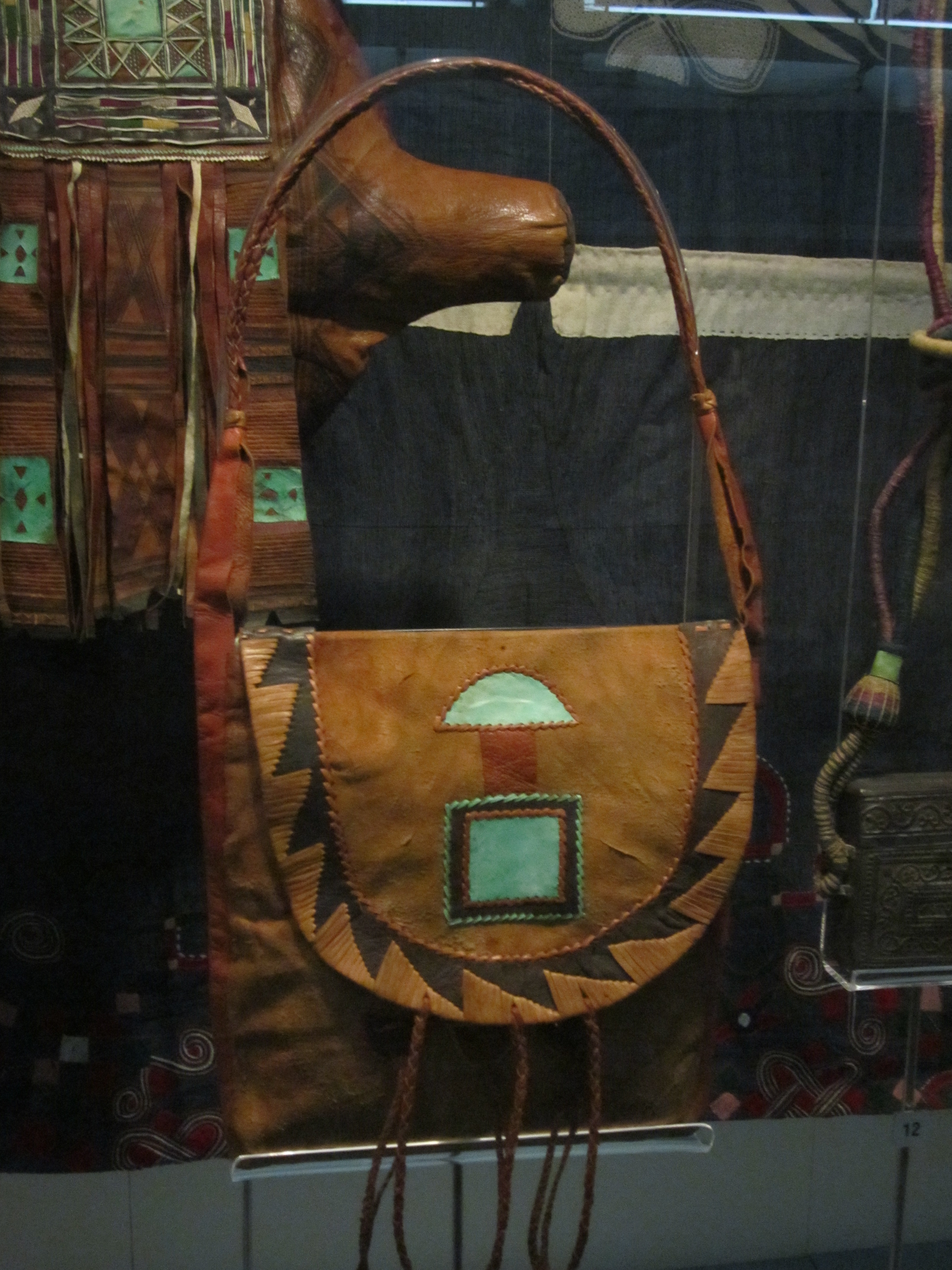 Photo taken at the World Museum Liverpool, England.